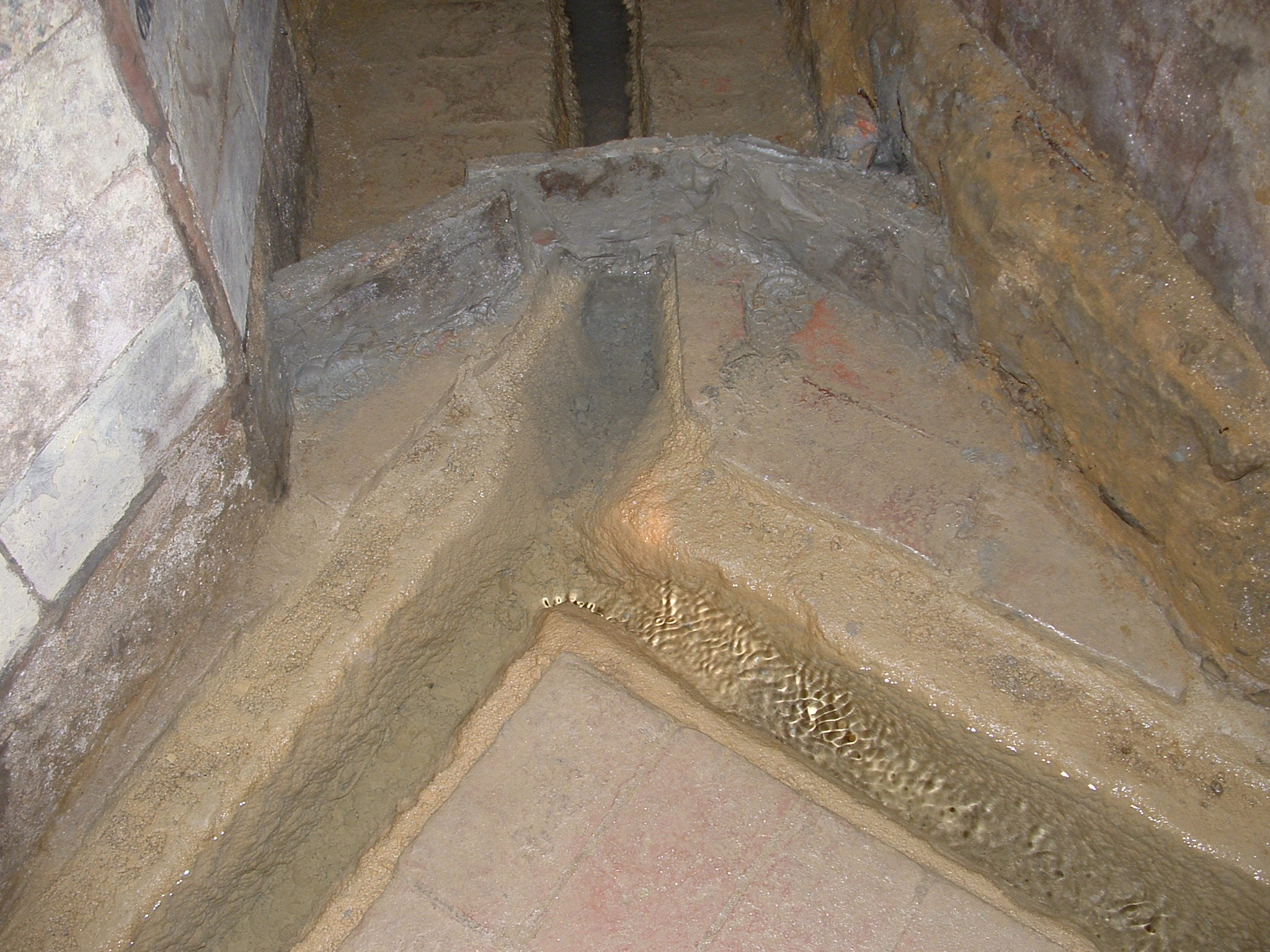 so called Dado of the Bottini di Siena, Fonte Gaia Channel, Siena, Tuscany, Italy